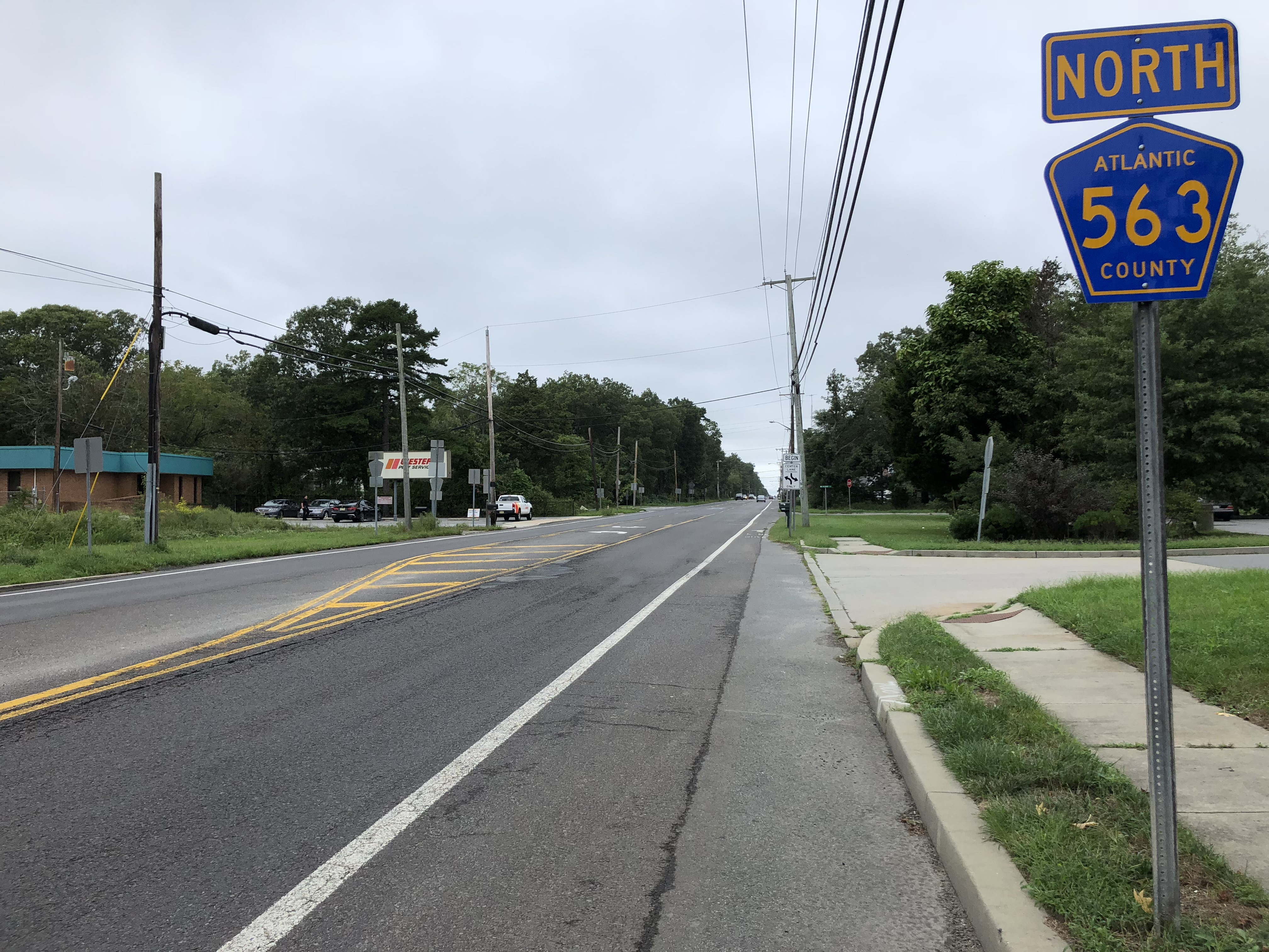 View north along Atlantic County Route 563 (Tilton Road) just north of Uibel Avenue in Egg Harbor Township, Atlantic County, New Jersey